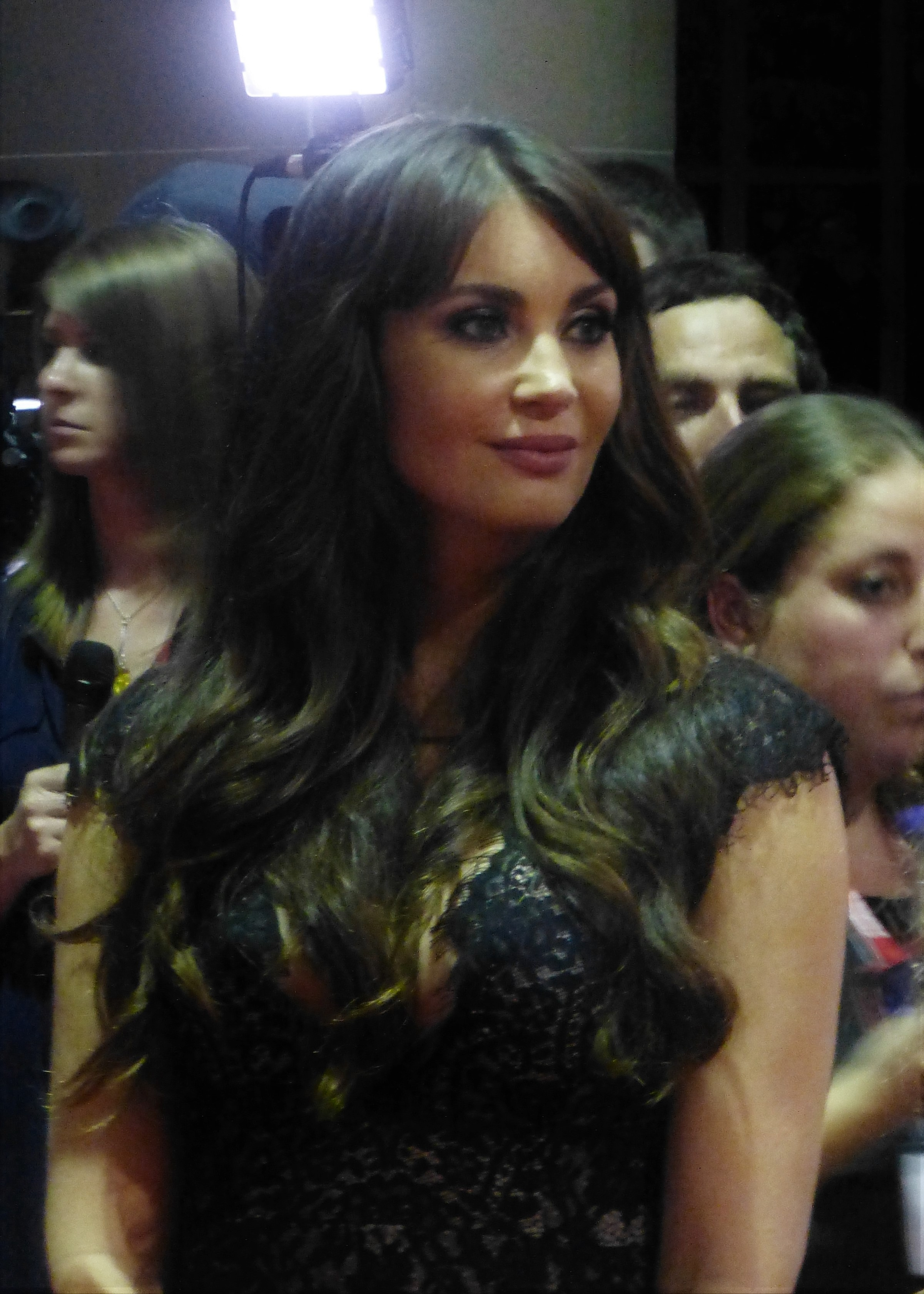 Tanit Phoenix at the premiere of Free Fire, 2016 Toronto Film Festival